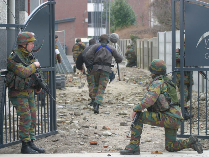 the FIBUA-technique is a combat-technique for combat in urban areas, similar to (but not the same as)MOUT. Picture shows Belgian soldiers performing FIBUA during a NEO-exercise. January 25th, 2006. photo Dst SCV All photographs showing any component of the ABL ("Armée Belge/Belgisch Leger", Belgian armed forces) may be used for any purpose, on the condition that the Dst SCV is mentionned (this also goes for both official and -most- personal photographs).